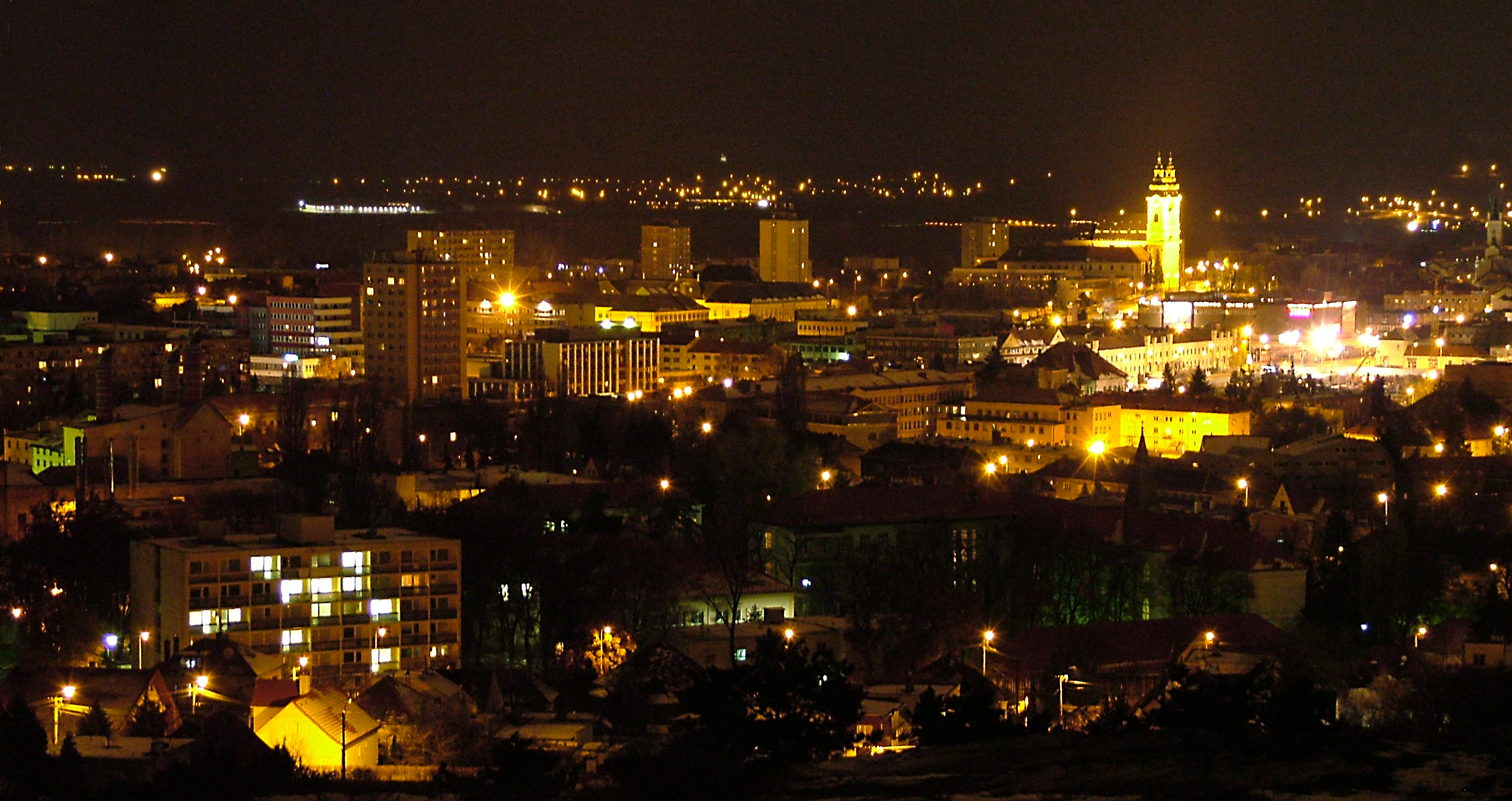 Nitra night view